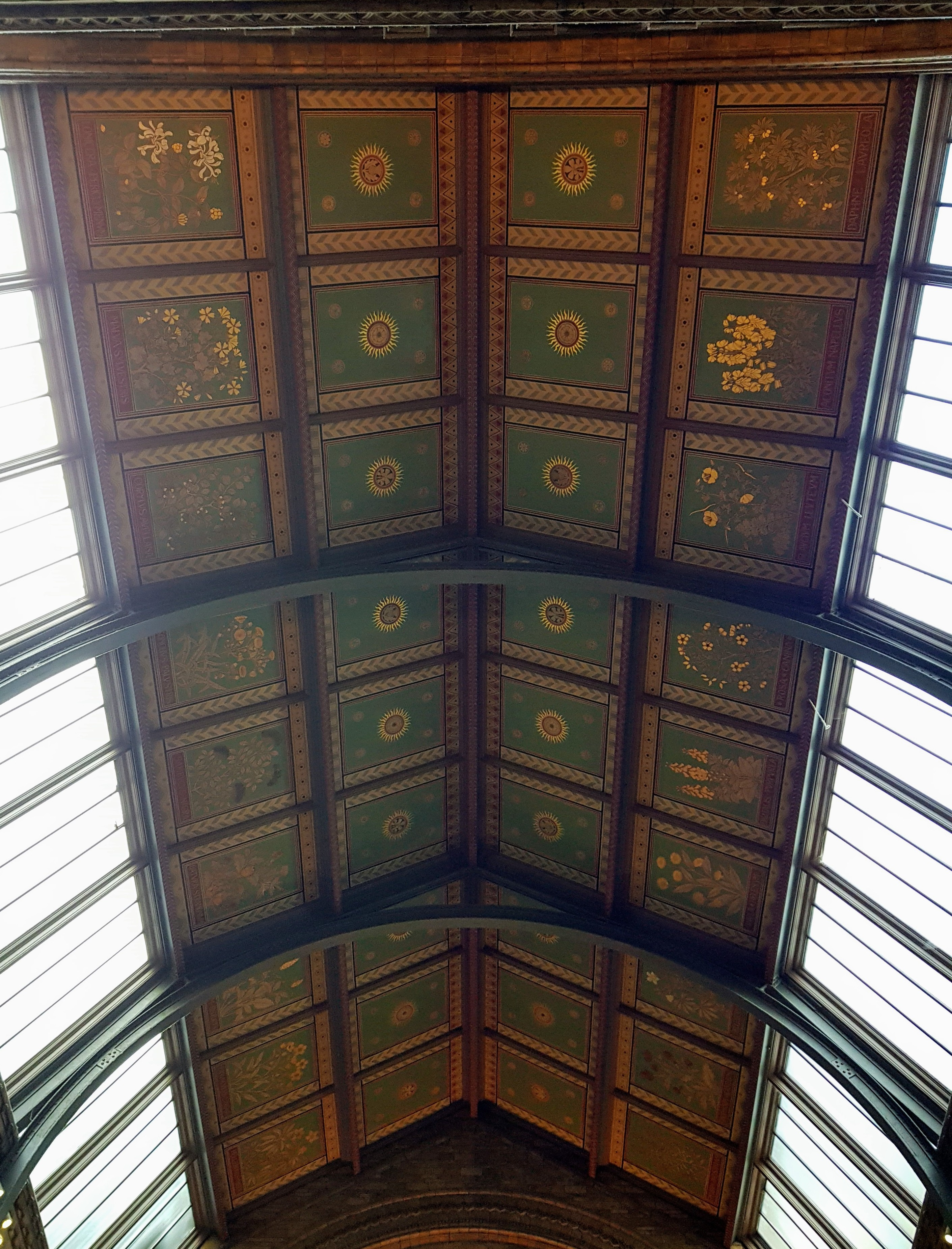 North Hall, Natural History Museum, London, January 2019 – Diospyros embryopteris panel